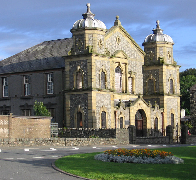 Bontnewydd Original description: Chapel at Bontnewydd on the Porthmadog road out of Caernarfon